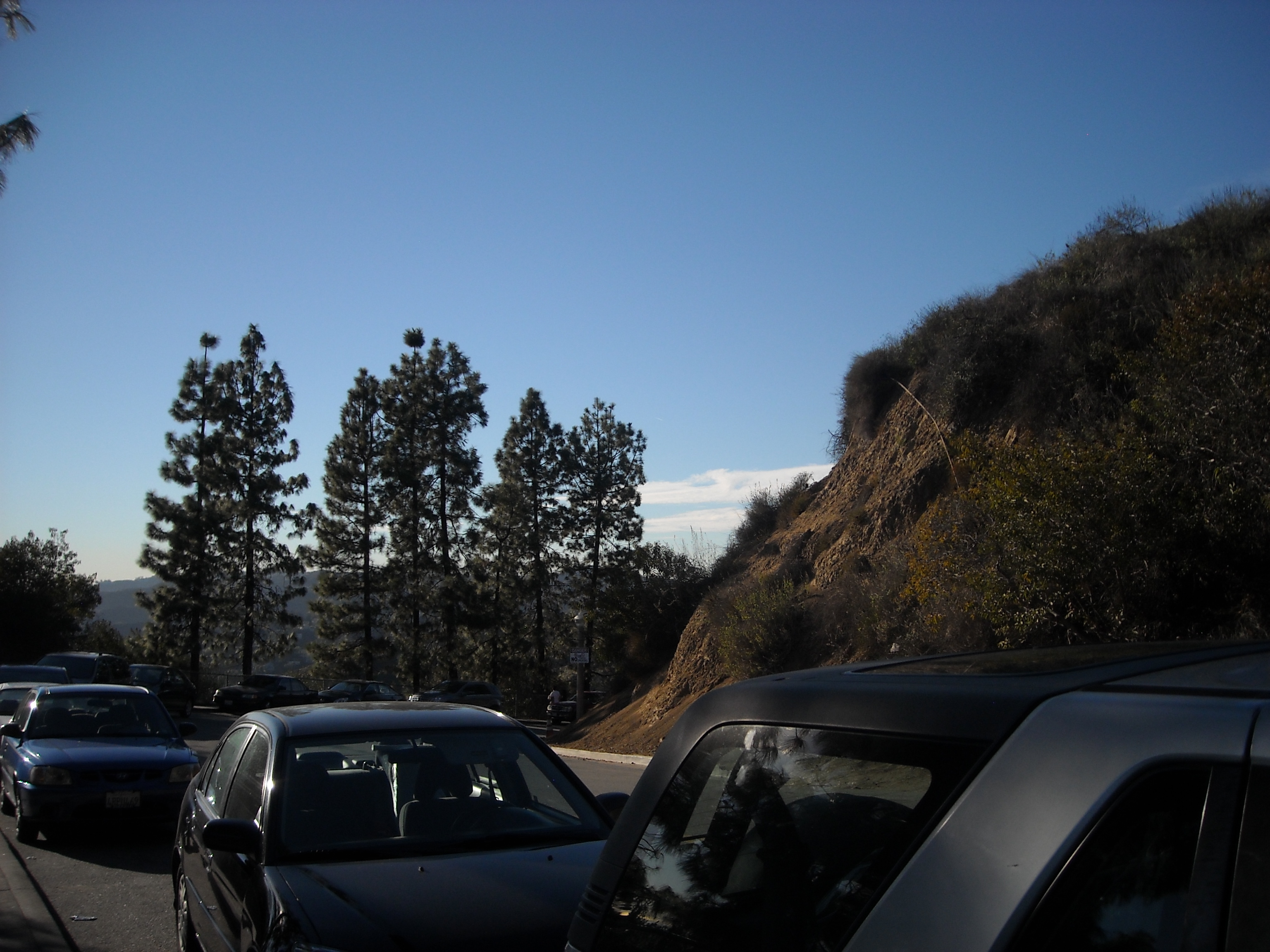 This is the road leading up to Griffith Observatory where you can parallel park and walk up to the observatory.